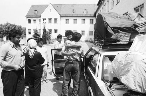 Asylum seekers in Munich (Germany)